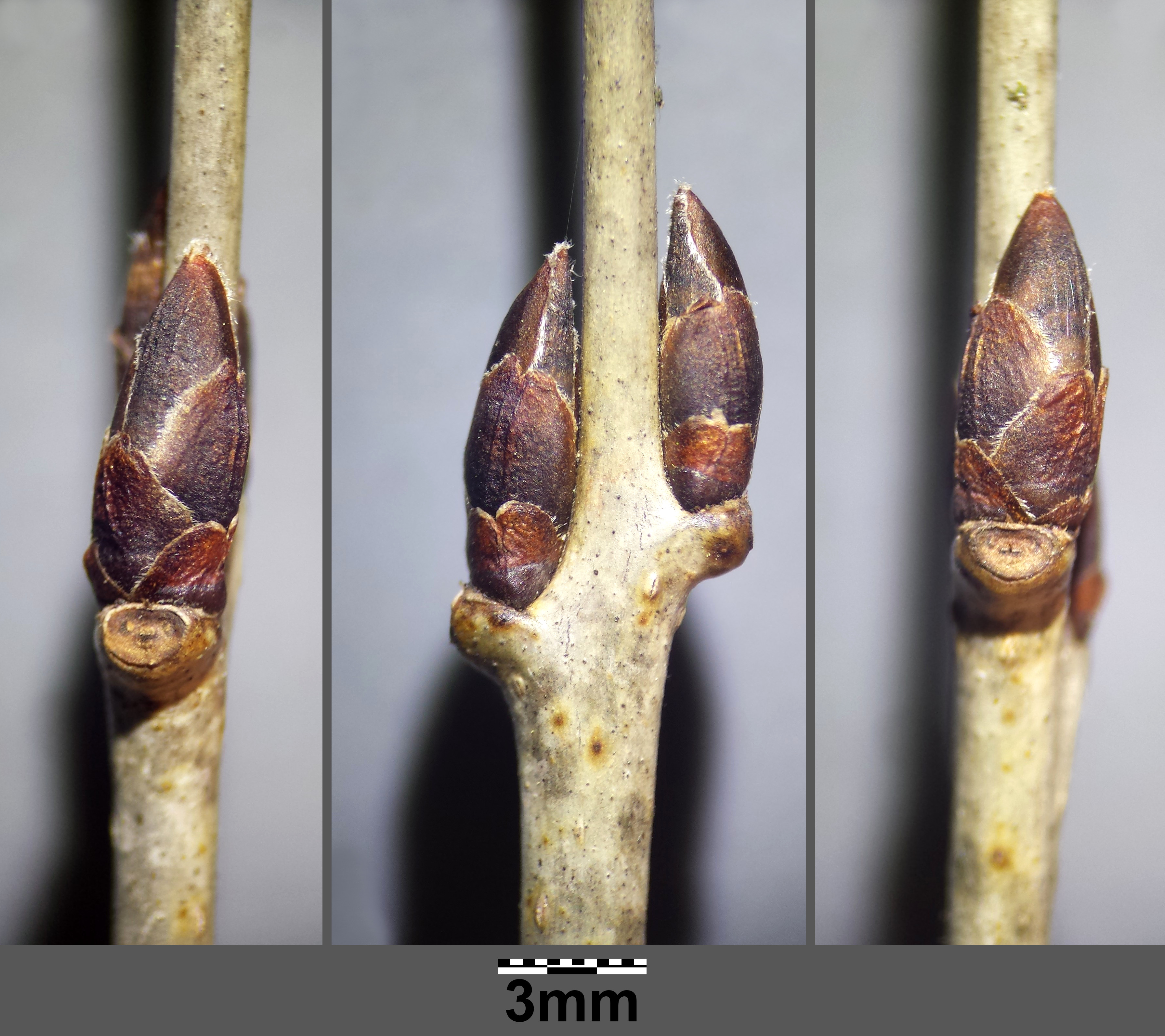 Buds Taxonym: Rhamnus cathartica ss Fischer et al. EfÖLS 2008 ISBN 978-3-85474-187-9 Location: Rohrwald, district Korneuburg, Lower Austria - ca. 300 m a.s.l. Habitat: border of a deciduous forest